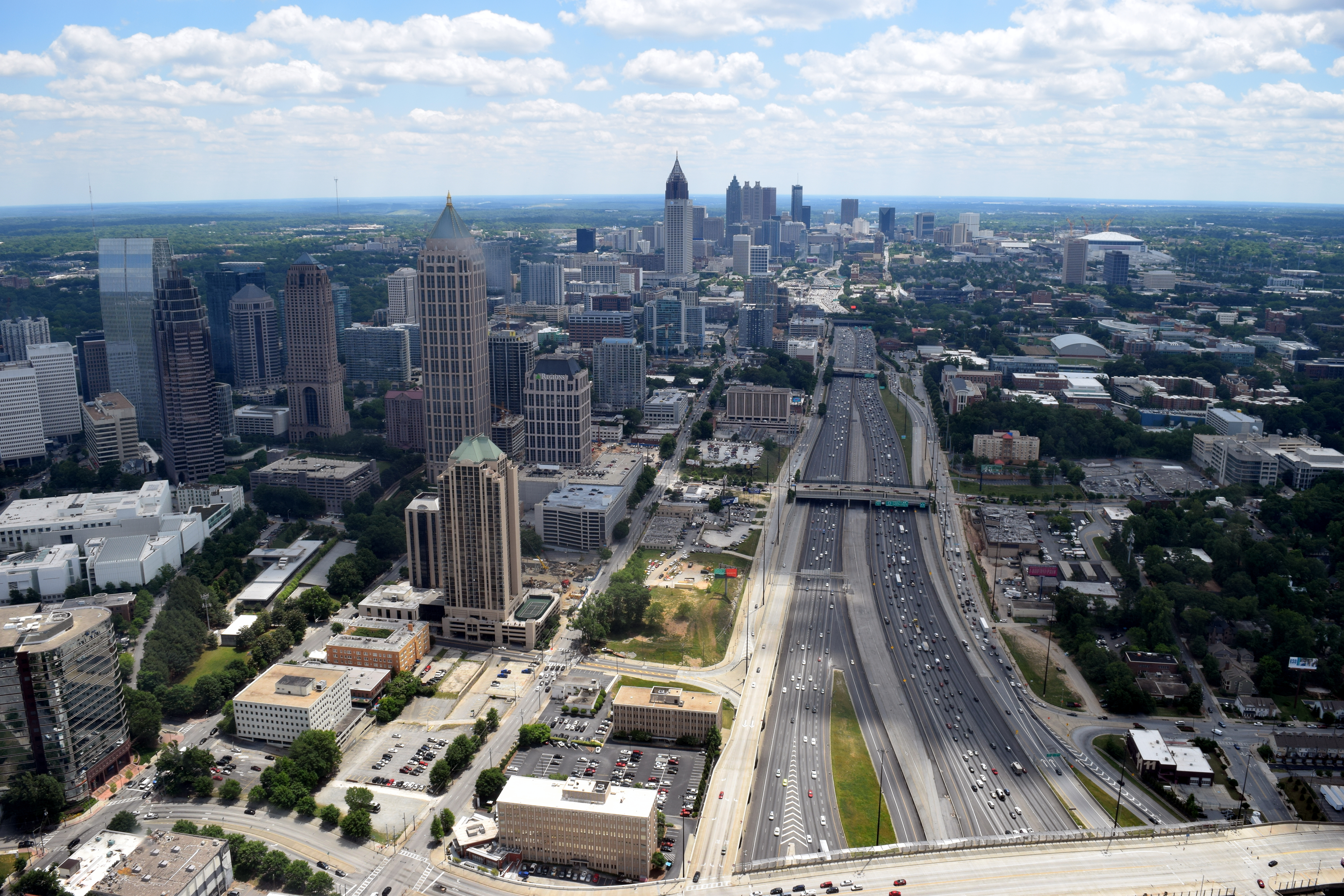 ATLANTA, May 4, 2016 - The Atlanta skyline as viewed from a UH-60 Black Hawk of the Georgia Army National Guard's 78th Aviation Troop Command. Georgia National Guard photo by Capt. William Carraway / Released